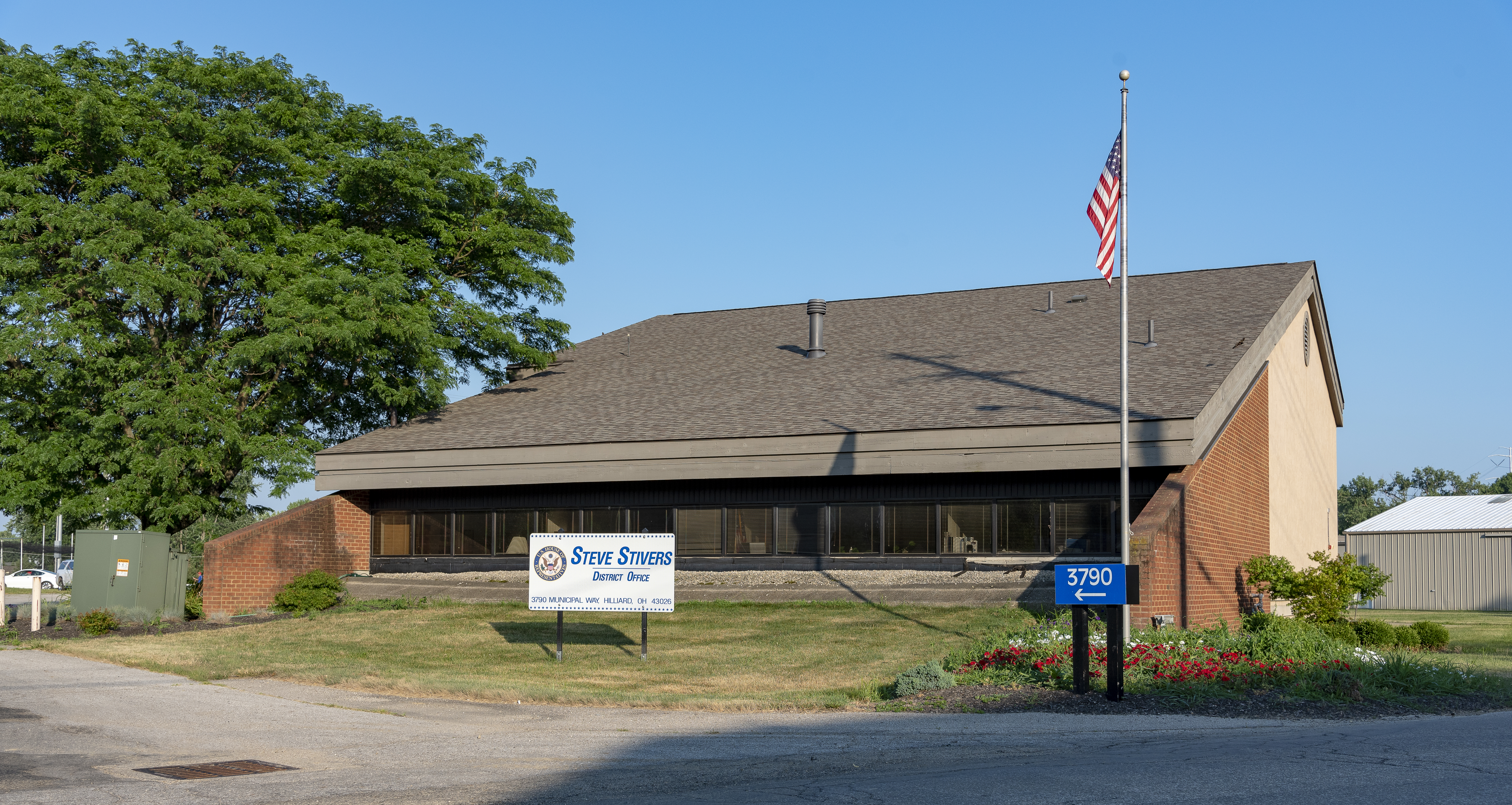 Steve Stivers congressional district office located in Hilliard, Ohio.